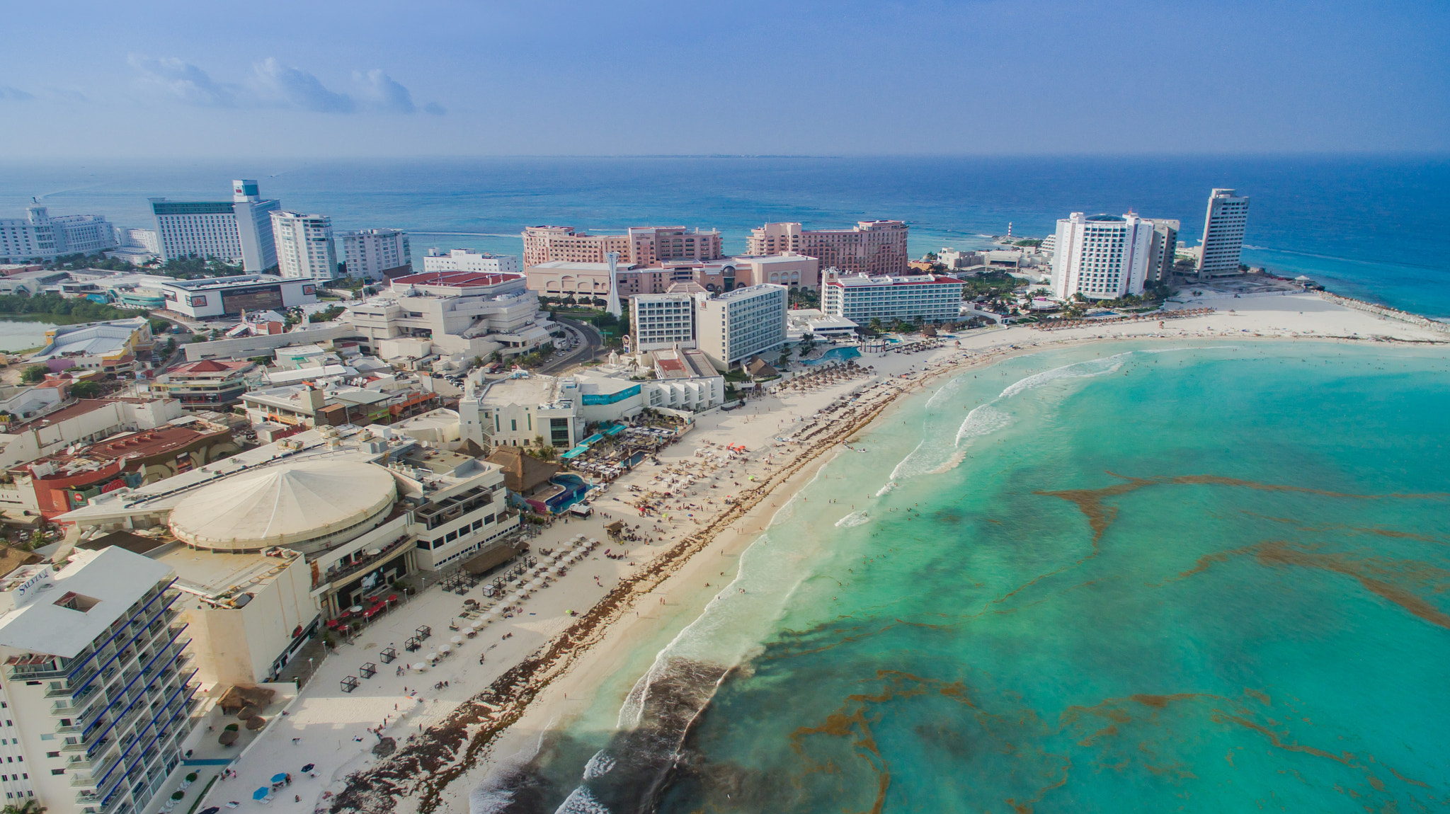 500px provided description: Luftbildaufnahmen von Cancun. [#sea ,#water ,#nature ,#mexico ,#beach ,#cancun ,#travel ,#freedom ,#aerial ,#sand ,#trip ,#holiday ,#mx ,#natur ,#wasser ,#meer ,#strand ,#freiheit ,#kamera ,#reise ,#st?dte ,#mexiko ,#geotagged ,#drone ,#luftbild ,#drohne ,#l?nder ,#quintanaroo ,#dji ,#canc?n ,#luftbildaufnahme ,#allgemein ,#l?nderst?dte]